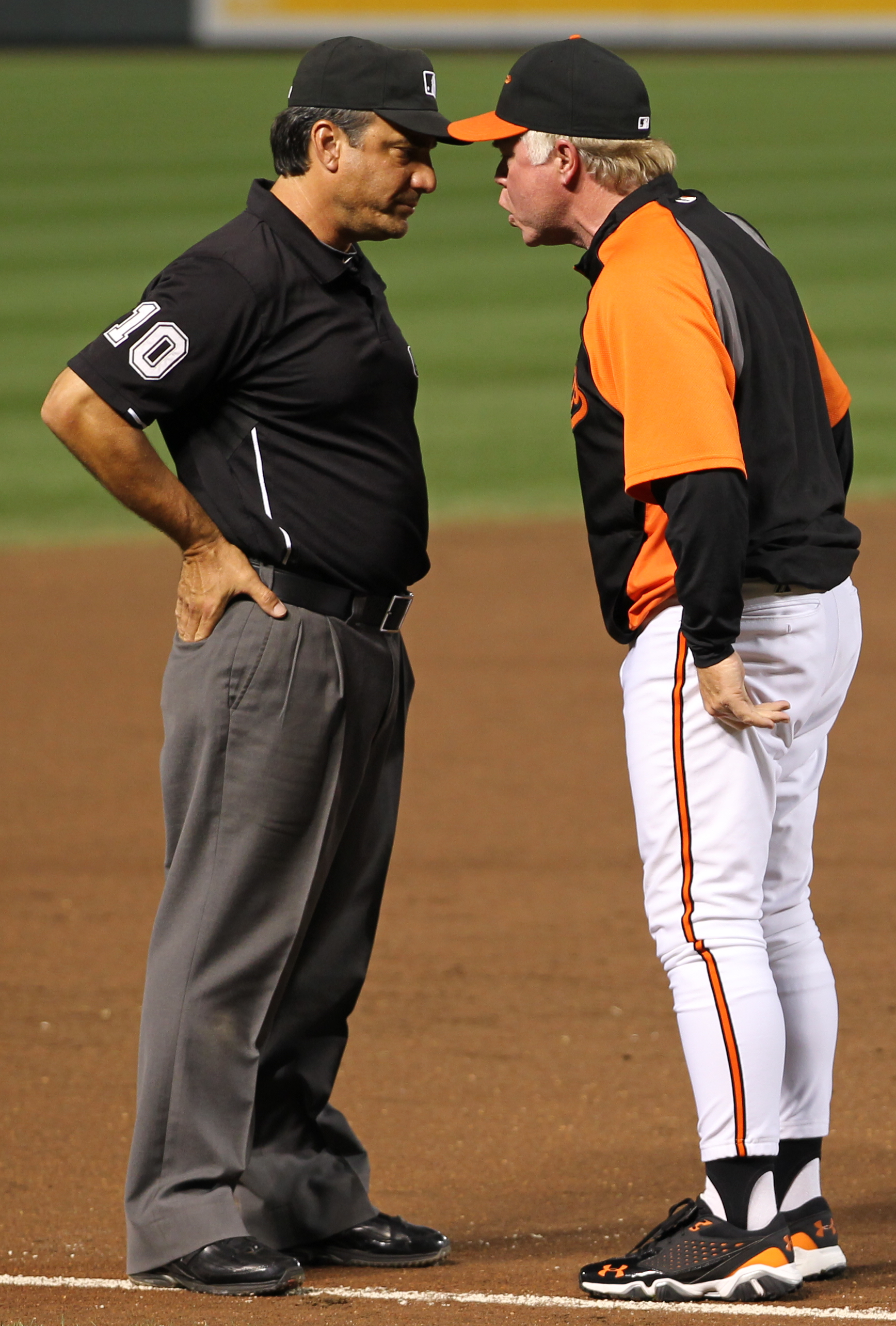 Umpire Phil Cuzzi with Orioles manager Buck Showalter, 2011.